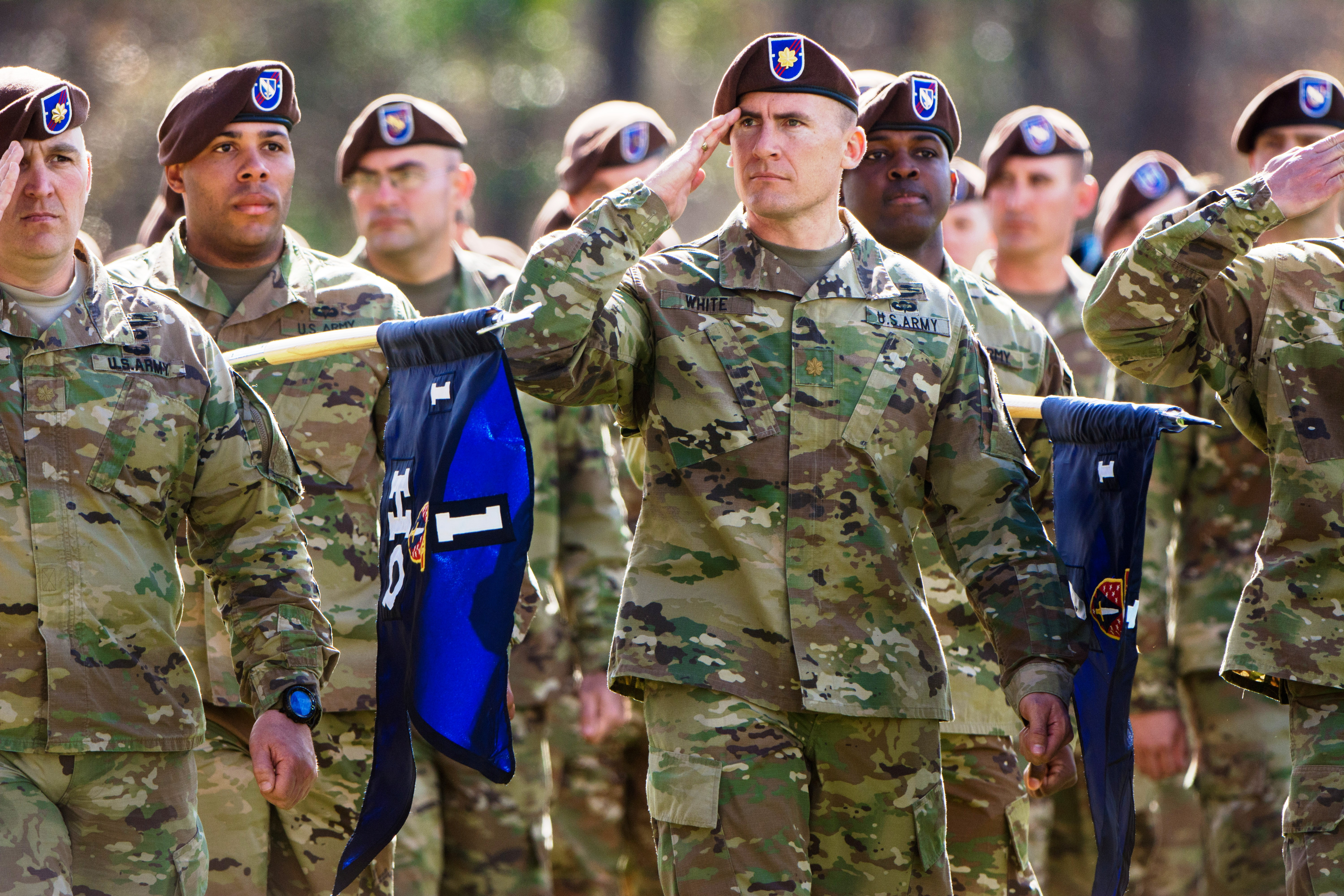 Photo of the activation ceremony for the U.S. Army's 1st Security Force Assistance Brigade (SFAB)